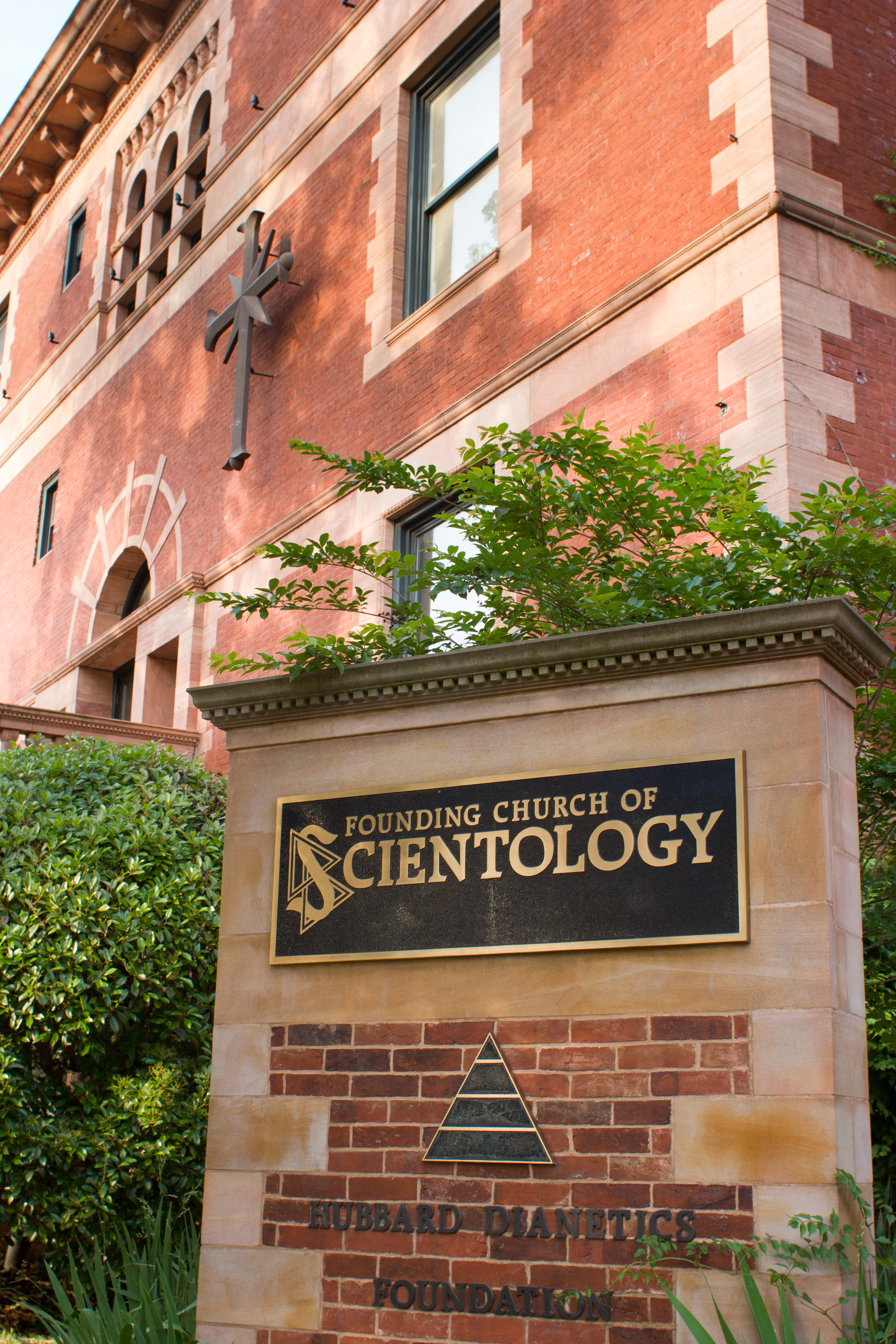 The Founding Church of Scientology